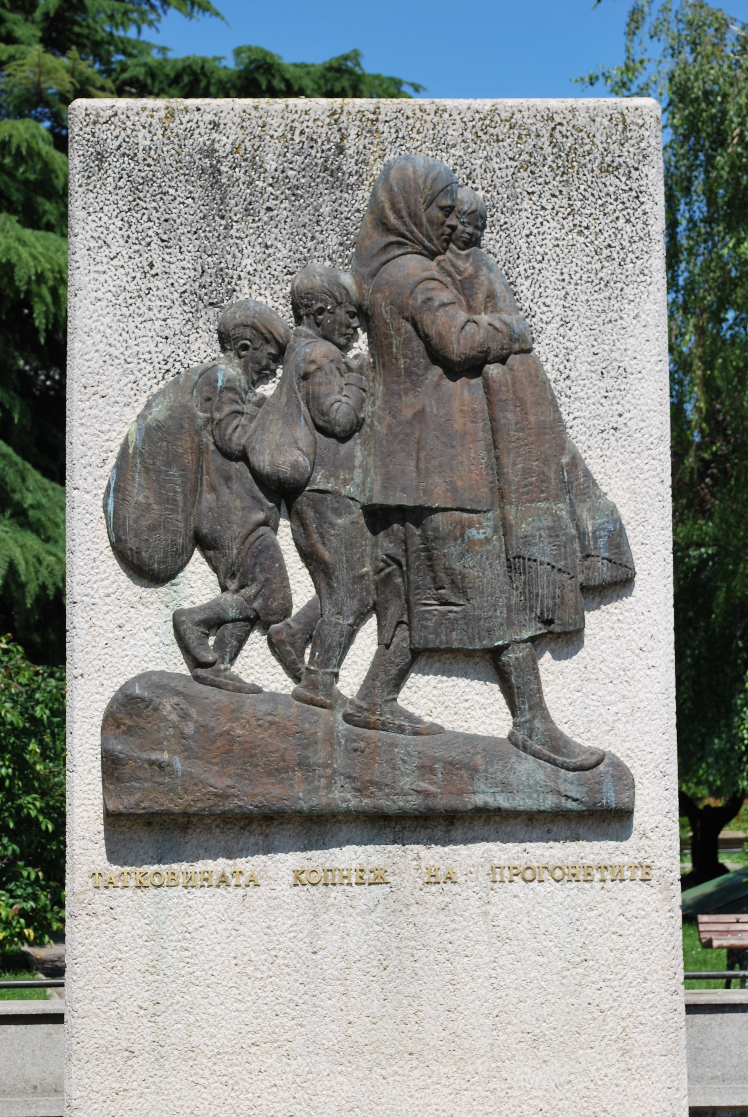 Monument of the refugee children in Skopje, Macedonia